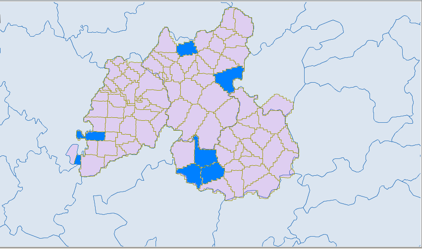 Blue - Yao.